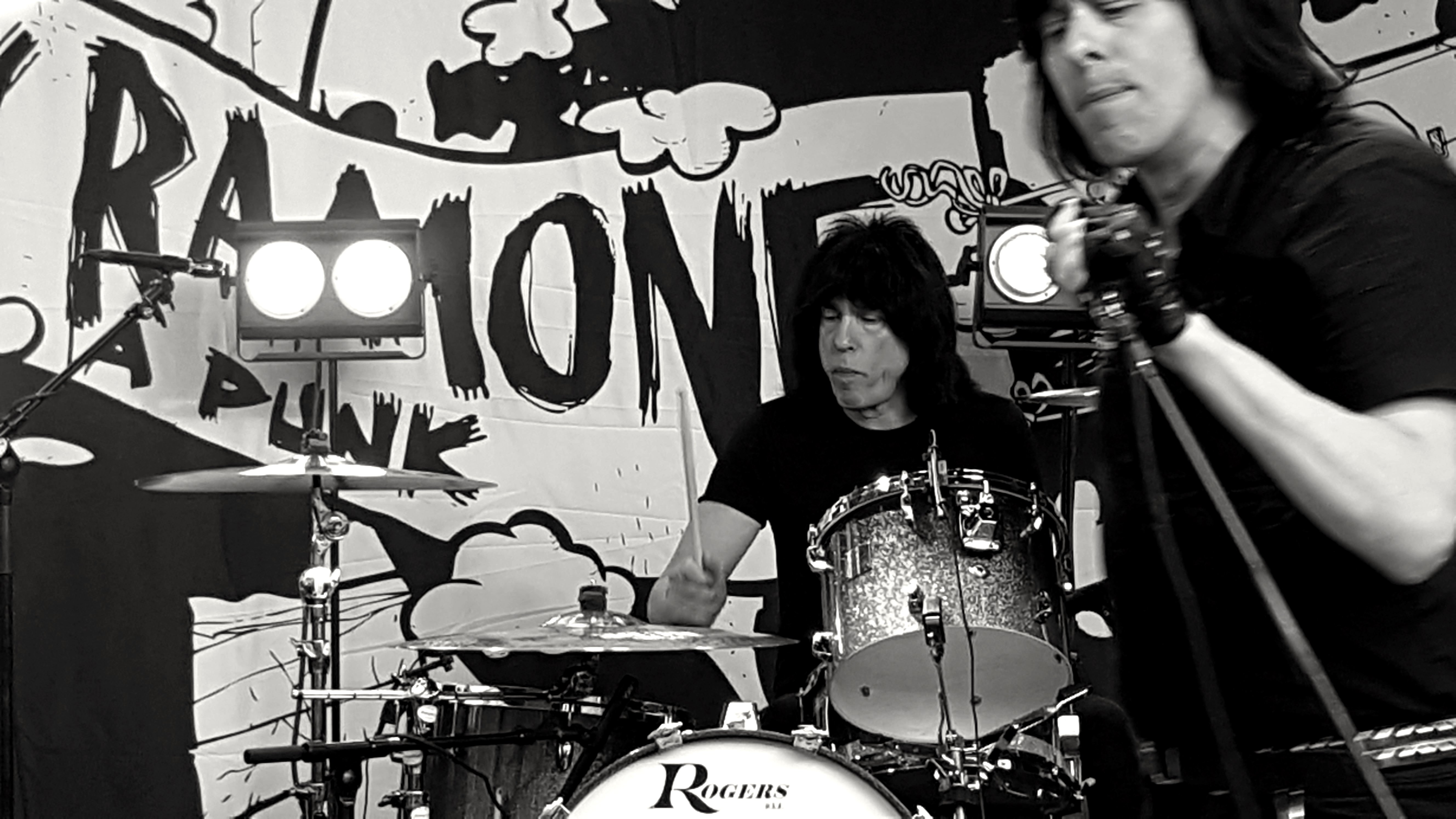 Мarky Ramone - Drums Ken Stringfellow - Vocals Alejandro Viejo Lewezuk - Bass Captain Poon - Guitar